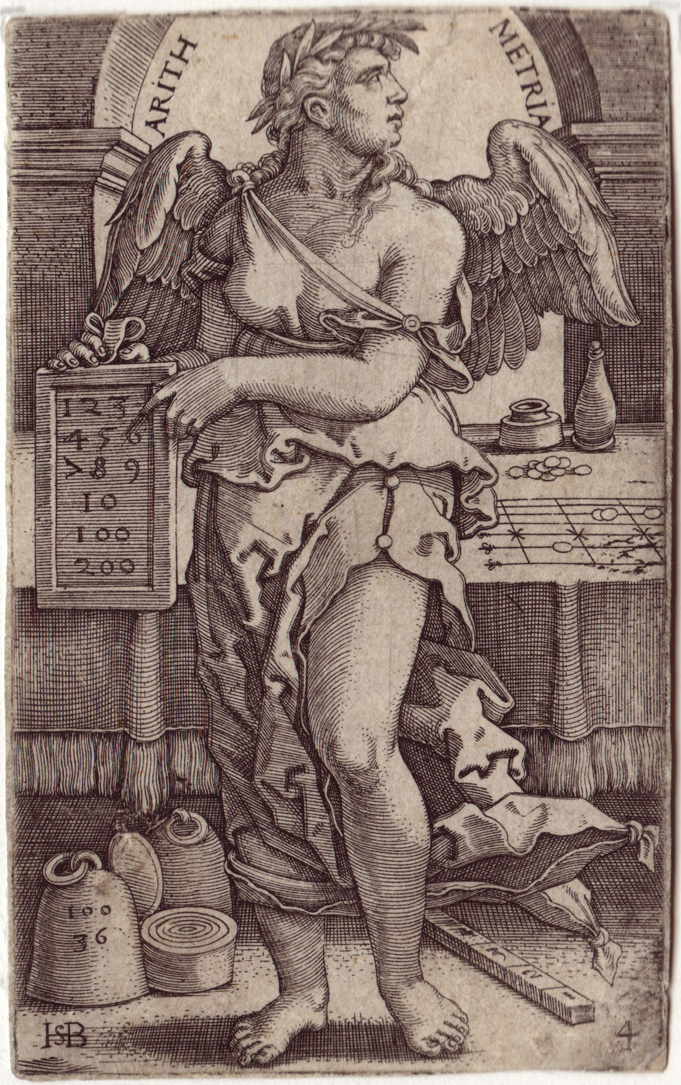 Beham, (Hans) Sebald (1500-1550): Arithmetria (B.124, P.126), from The Seven Liberal Arts, P., Holl. 123-129. First state of two.